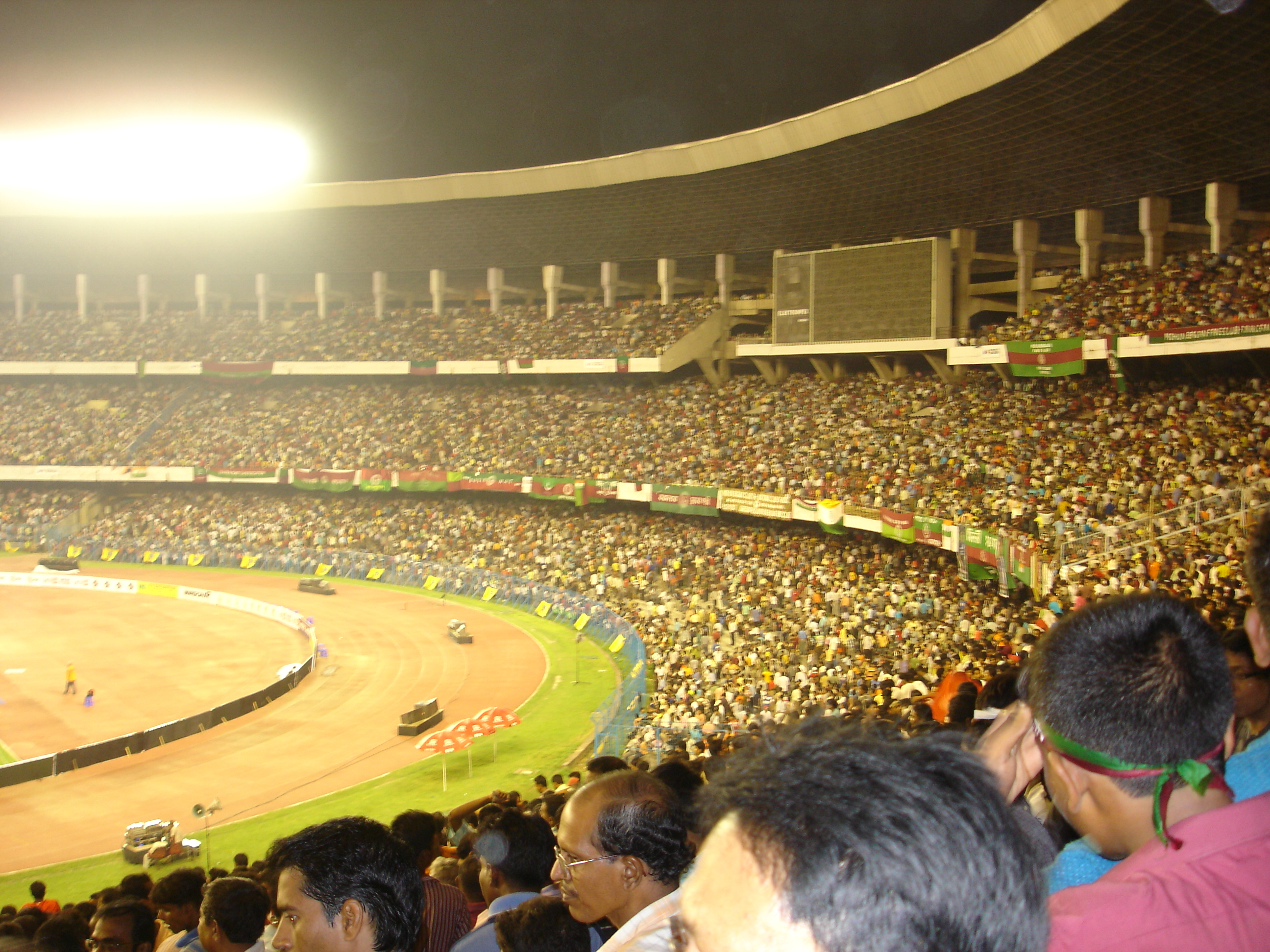 The last official match of Oliver Kahn in front of 120.000 viewers in Salt Lake Stadium (Yuba Bharati Krirangan) Kolkata (India) - FC Bayern Munich versus Mohun Bagan AC